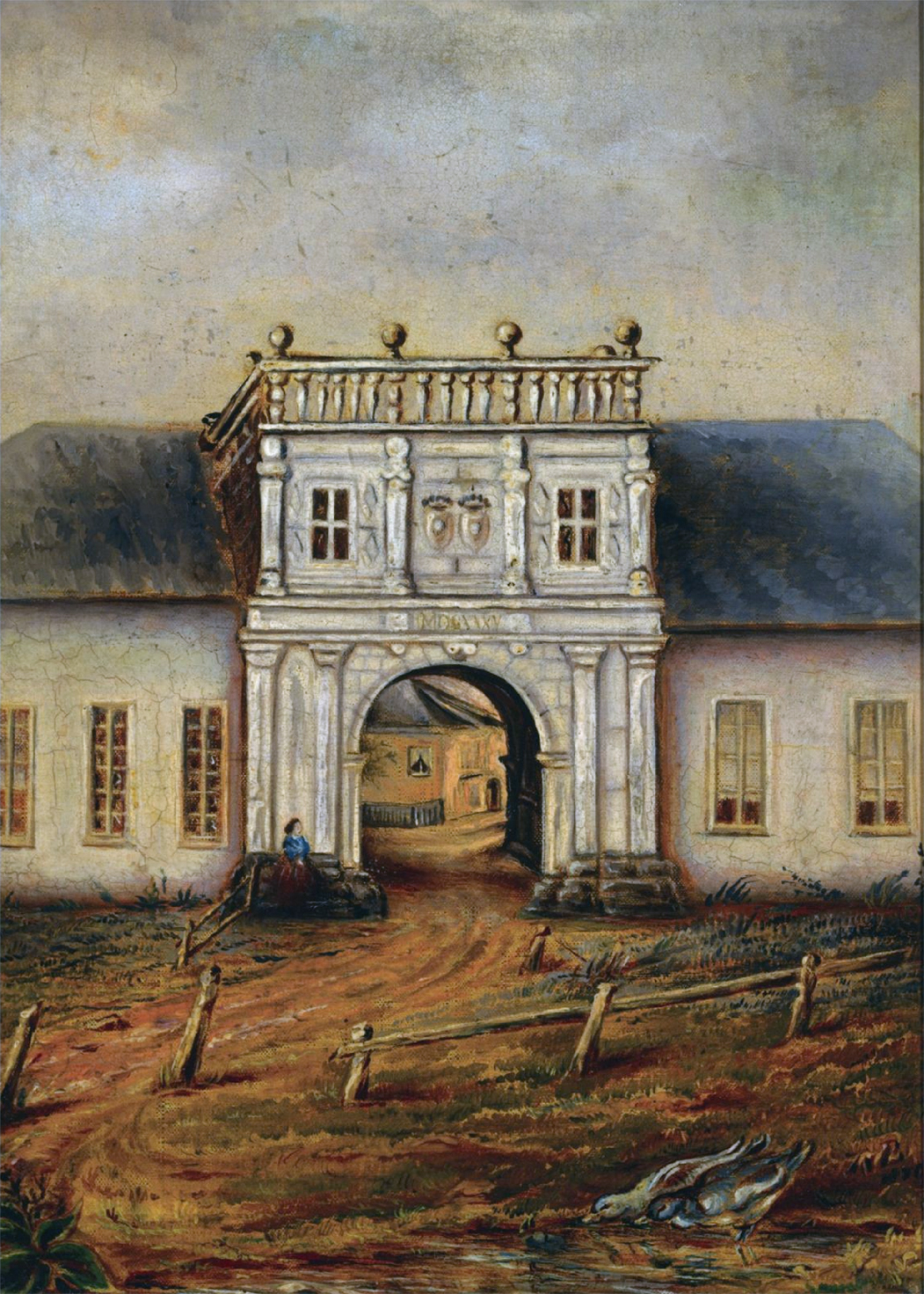 The stud-farm of Borculo 33.5 x 24 cm. indistinctly signed with initials l.r. oil on canvas laid down on board